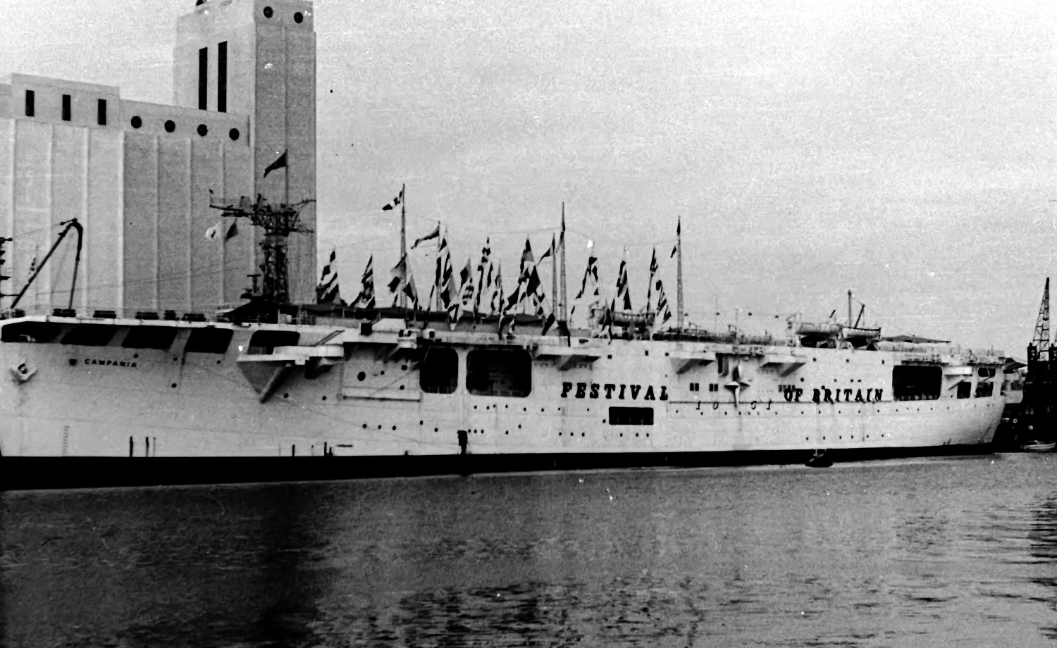 Carrier Campagnia dressed for the Festival of Britain in 1951 at Plymouth Docks